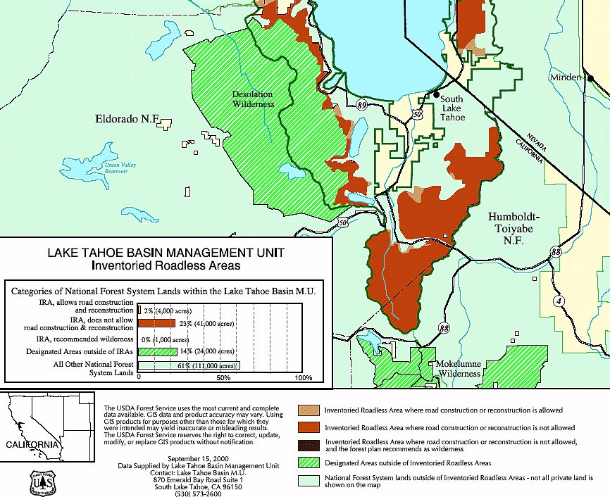 Partial view of USDA map of inventoried roadless areas in the Lake Tahoe Basin Management Unit, Lake Tahoe, California. Includes legend.